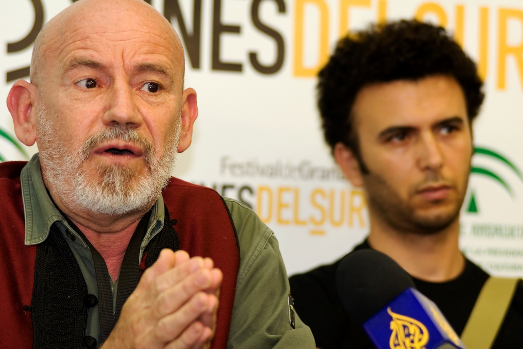 The director and the actor of the film "Making Of"